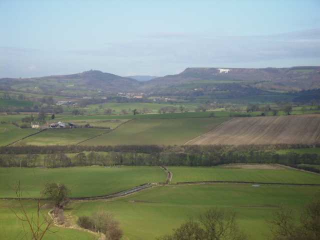 Kilburn White Horse. This supplementary image was taken from the public footpath above Husthwaite, four miles south of the White Horse.